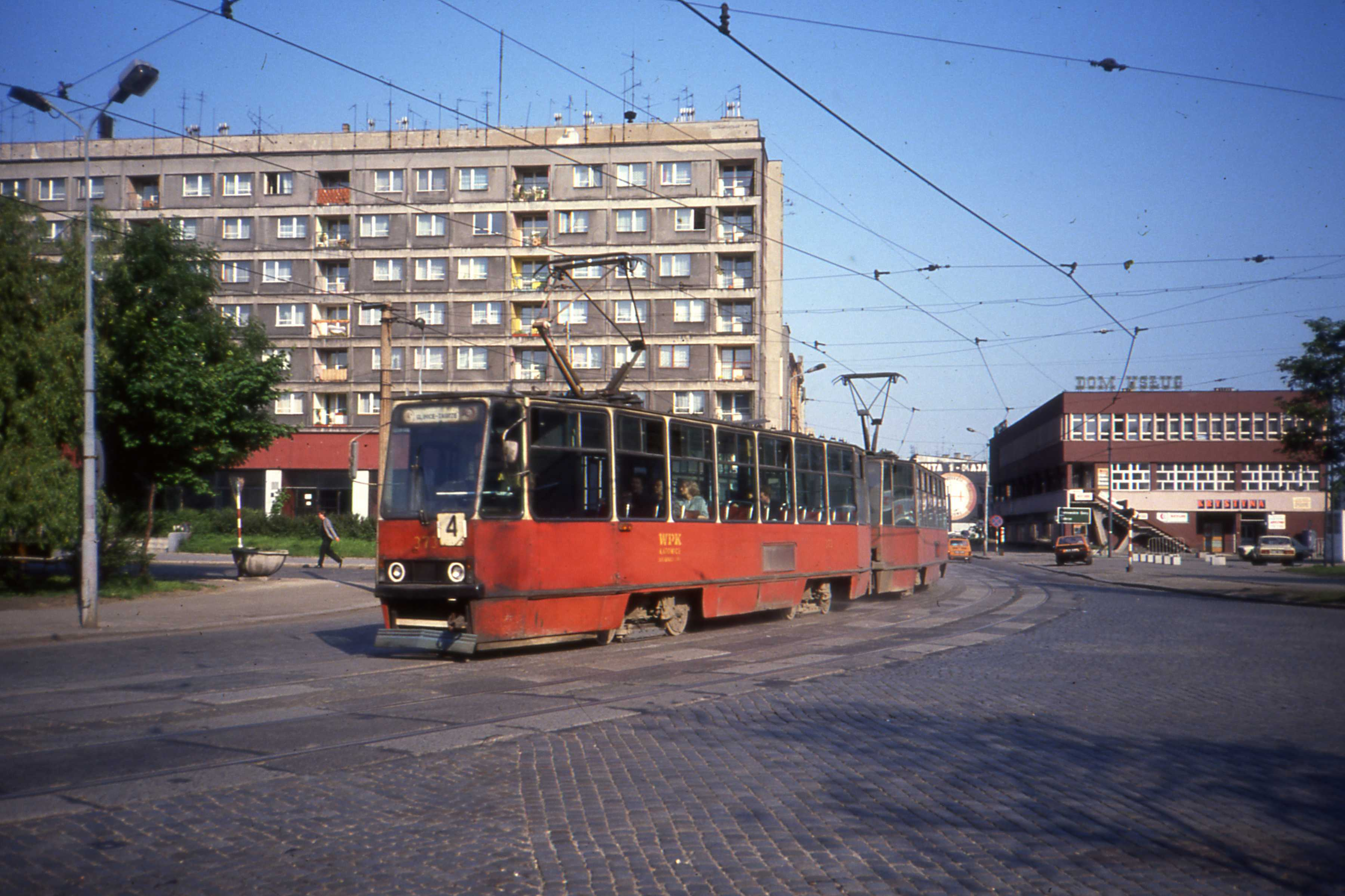 Konstal 105N car no 373 of a t wo-car set approaching Gliwice on Route 4 from Zabrze, the westernmost outpost of tramway rails in the Katowice Silesian system. A few seconds earlier this was the view with a long lens camera on print film of the same tram. The western terminus of this route was at Wójtowa Wieś. On 1 September 2009, trams were withdrawn from routes 1 and 4, leaving Gliwice without them. (see comment below) Tram nr 373 is not mentioned in this incomplete fleetlist See here for the Wikipedia page of Trams in Silesia Taken on Fuji 100 slide film with an Olympus XA 35mm lens compact camera. The main wikipedia site for the outer routes 43/43Bis/46 is here.